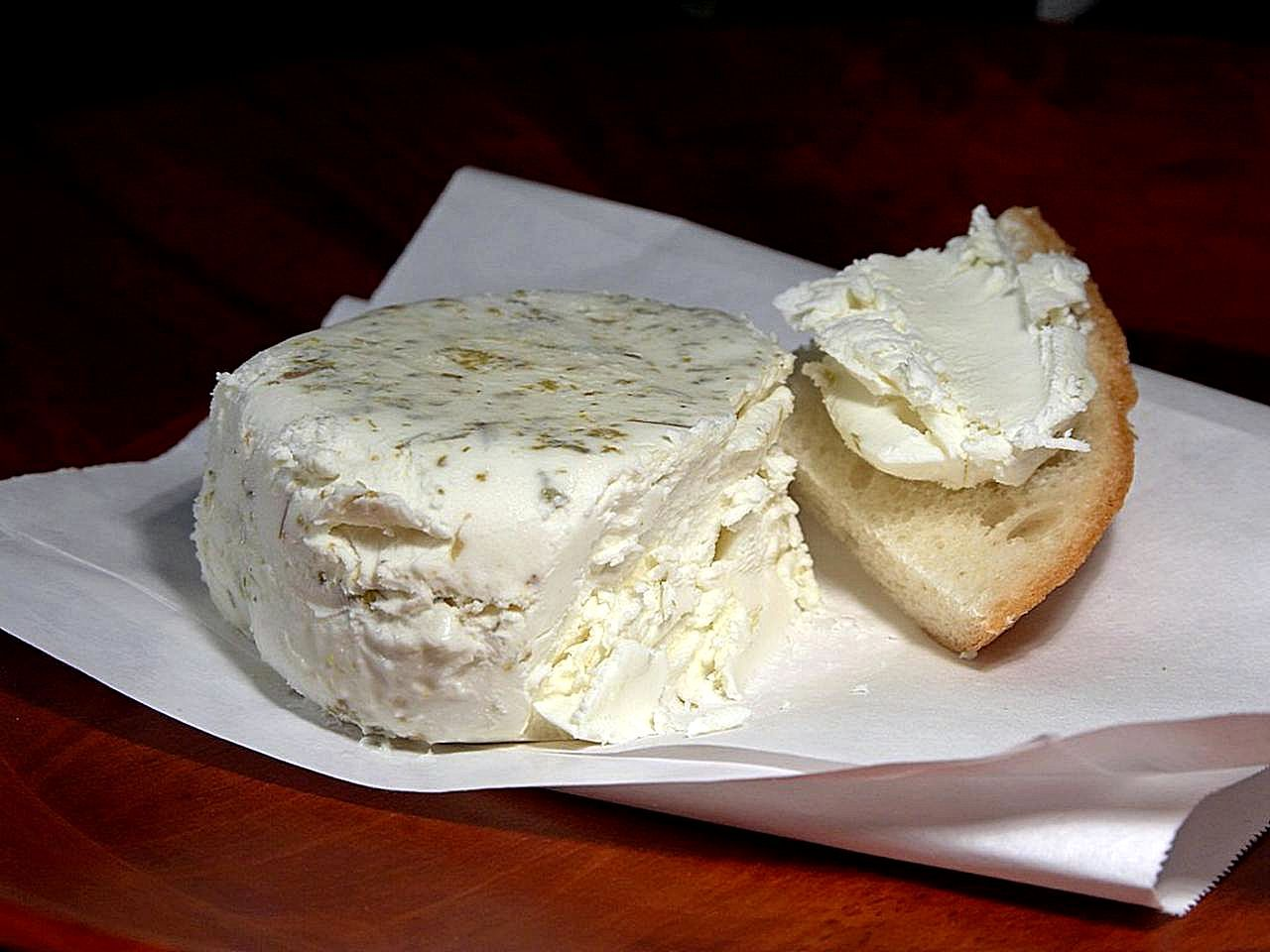 Image title: Purple haze chevre Image from Public domain images website